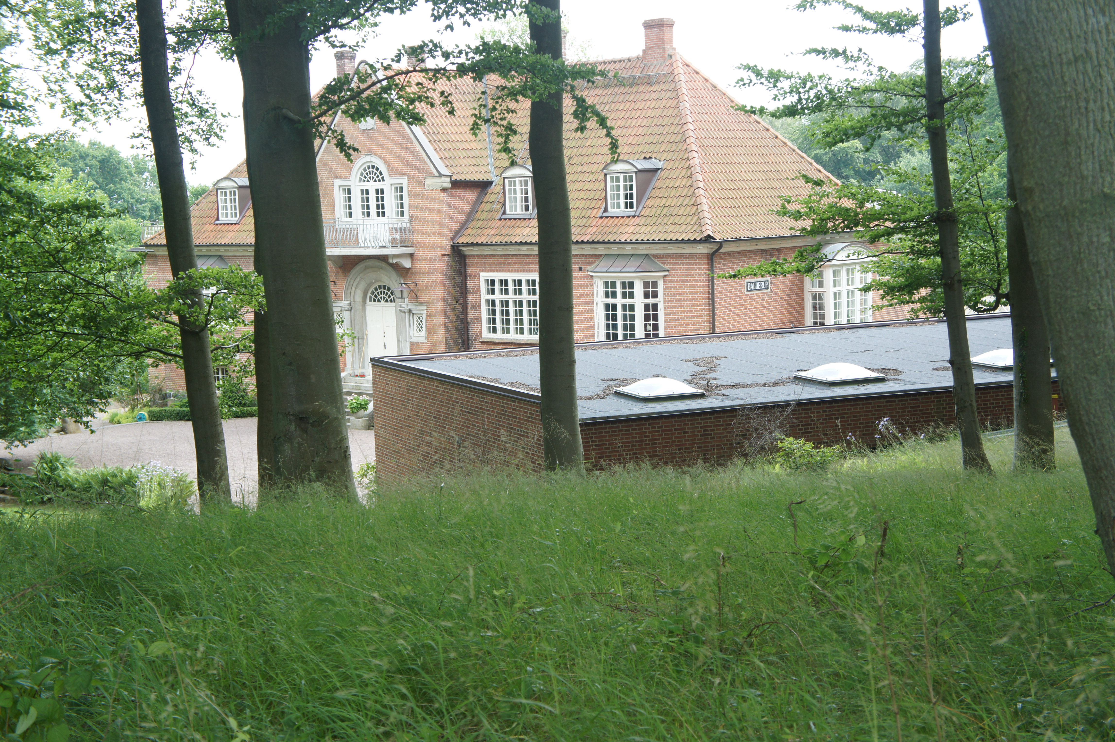 The manor Balderup, Scania, Sweden